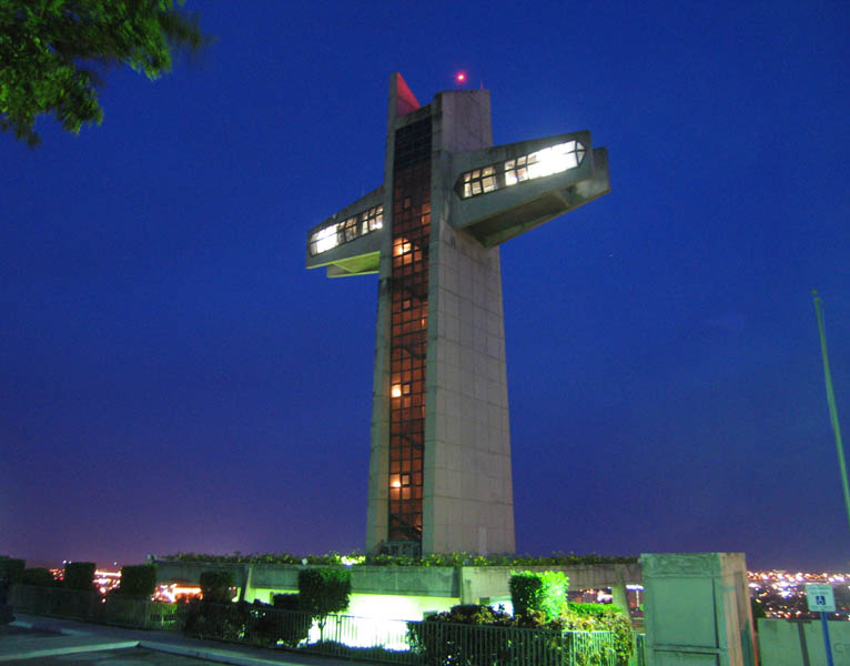 El Vigia Cross in Ponce, Puerto Rico